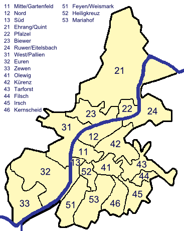 Trier suburbs